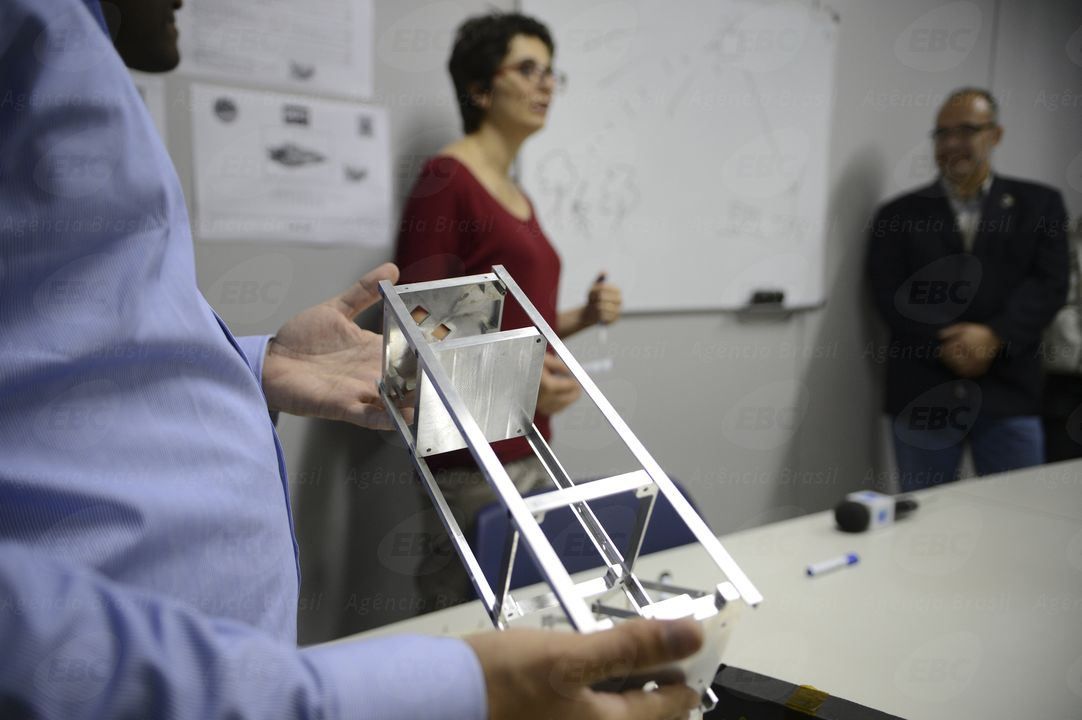 The Cubesat 3U platform used in the SERPENS program.